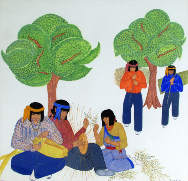 Basketmaking c 1940 By Pablita Velarde The man in the foreground makes a basket of yucca leaves, while the man behind him makes a twilled basket, the woman prepares materials, and two men bring more materials. This work was commissioned by Bandelier National Monument under the Works Progress Administration [WPA] program. Casein paint, board. L 28.3, W 28.3 cm [L 11 1/2, W 11 1/8 inches] Bandelier National Monument, BAND 708 URL: Photo courtesy of the US National Park Service